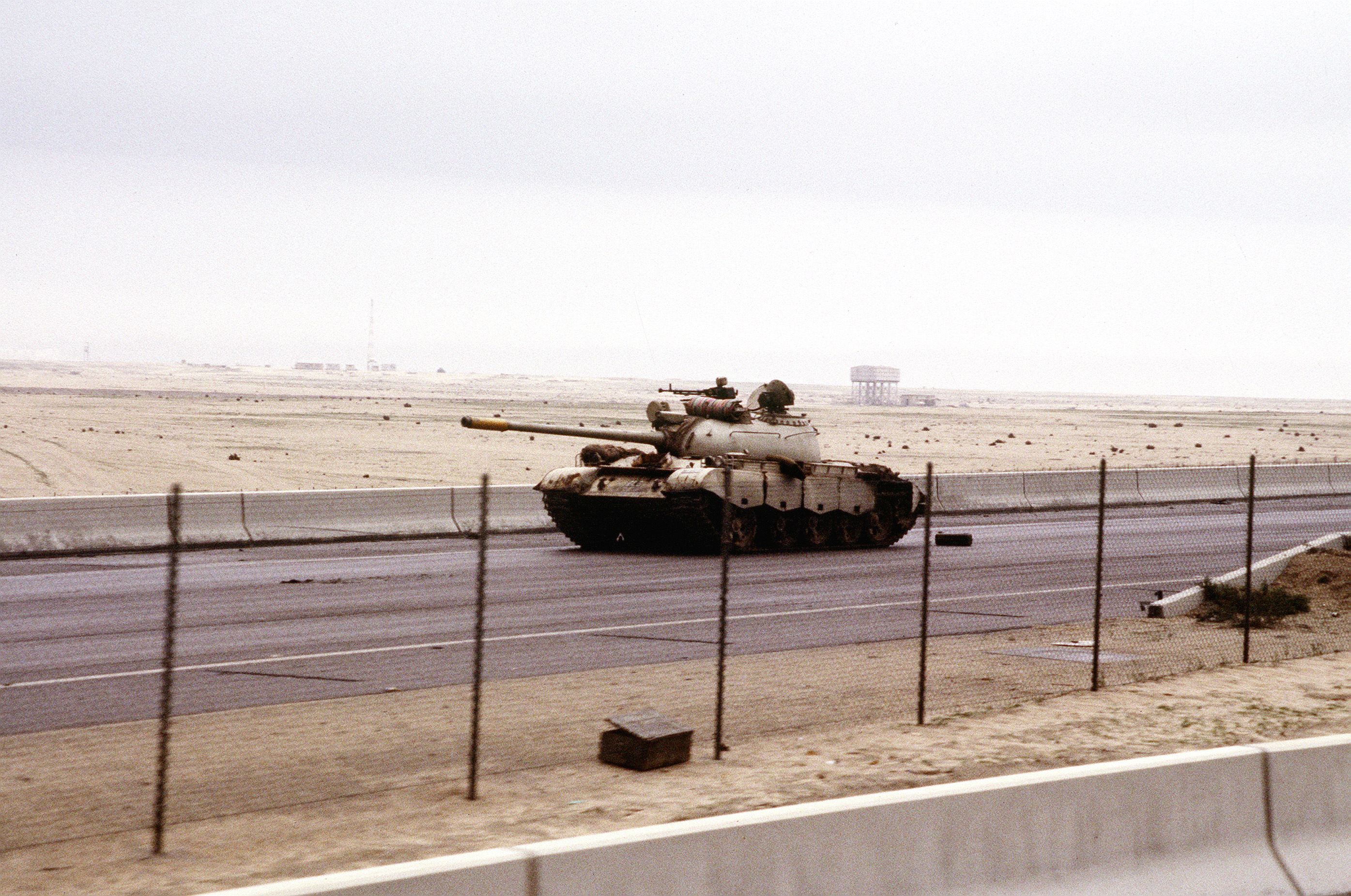 An abandoned Iraqi Type 69 main battle tank sits on the side on the road into Kuwait City during the ground phase of Operation Desert Storm.